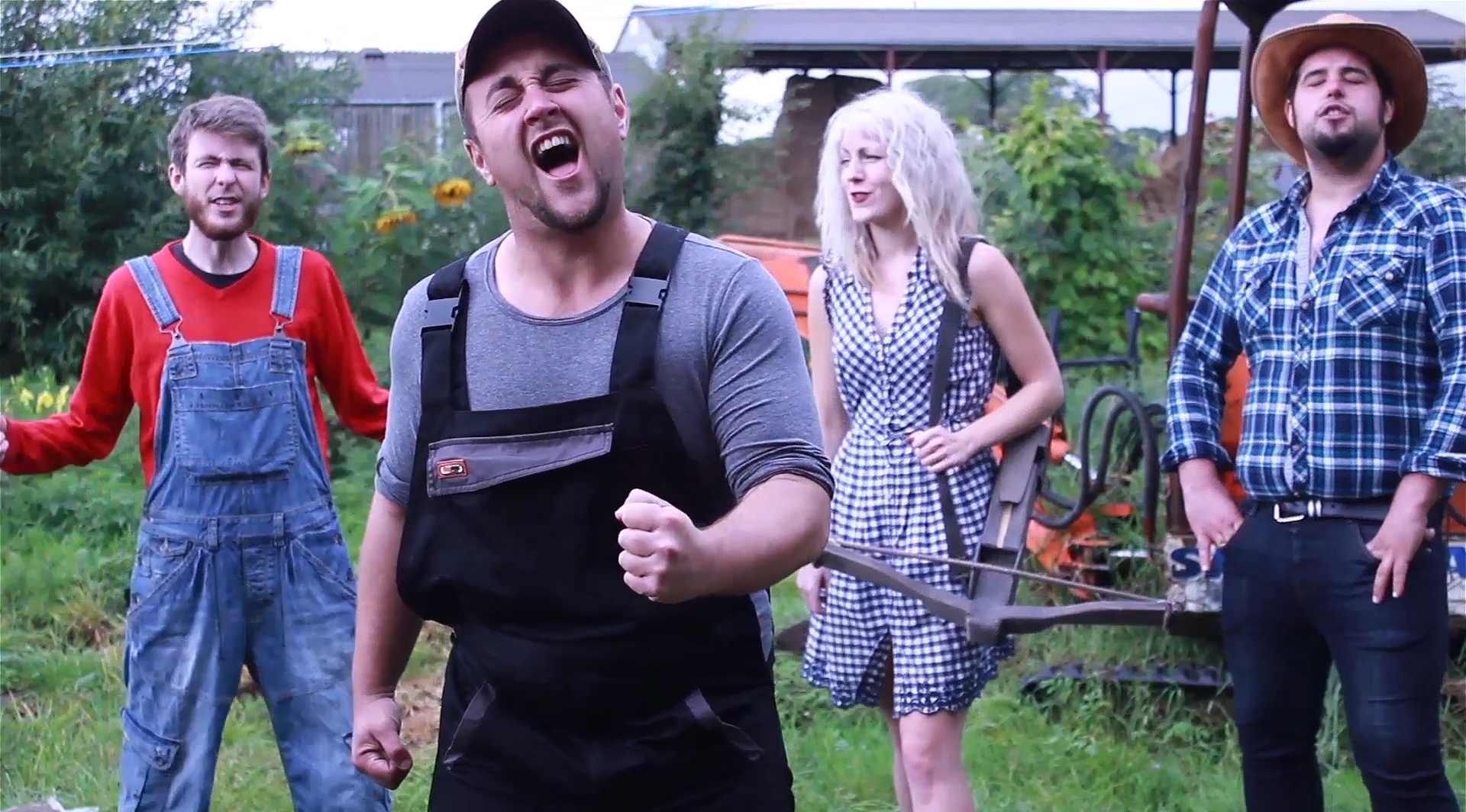 All four members of the British band, The Beef Seeds, in September of 2013. L-R: Scott "Showman" Bowman, Peet "Bongo Peet" Morgan, Becky "Miss Becky" Johnson, and Adam Beale